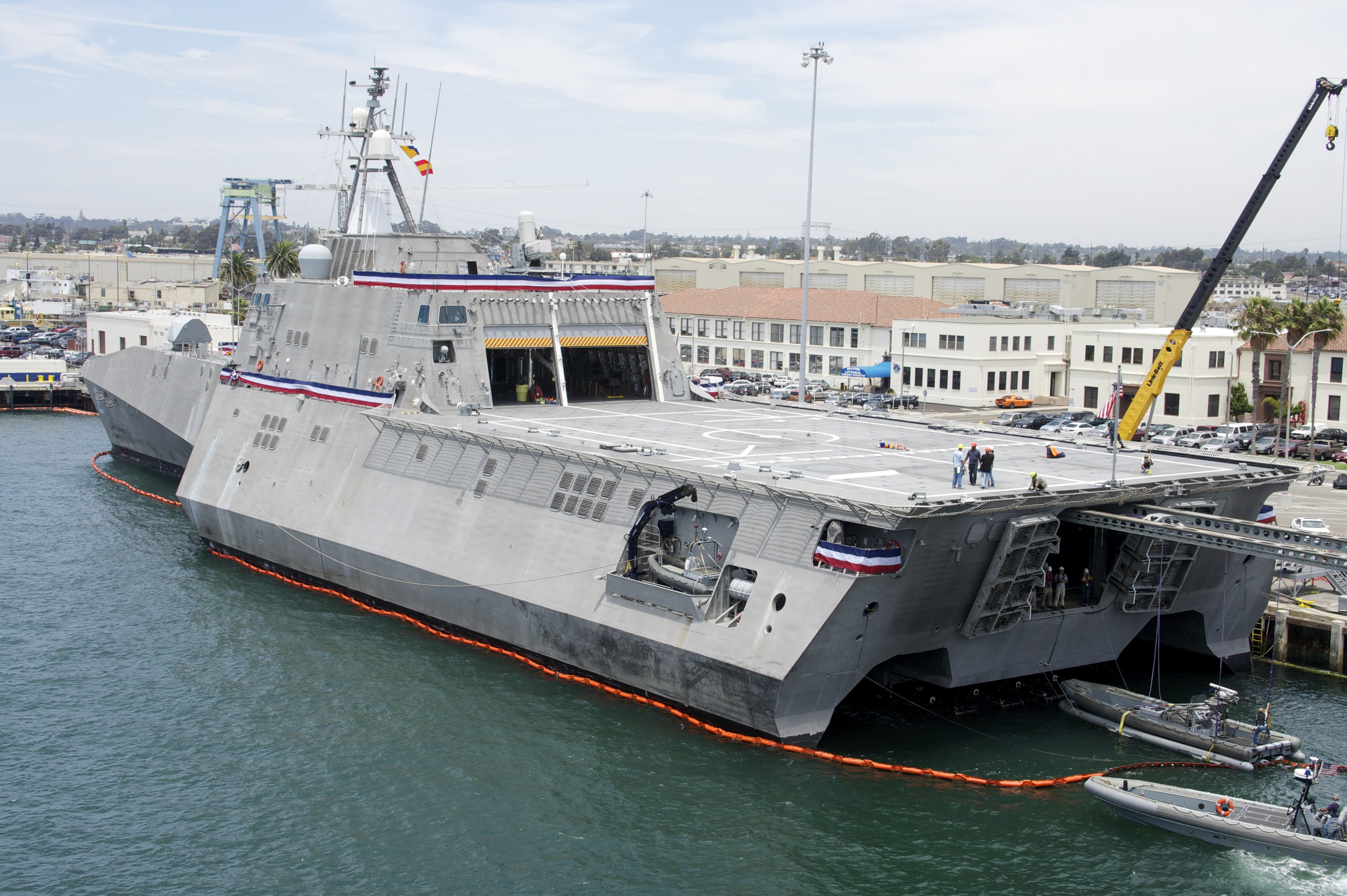 SAN DIEGO (July 18, 2012) The Littoral Combat Ship USS Independance (LCS 2) recovers a boat while moored at Naval Base San Diego. (U.S. Navy photo by Senior Chief Mass Communication Specialist Joe Kane/Released) 120718-N-ZC343-858 Join the conversation navylive.dodlive.mil